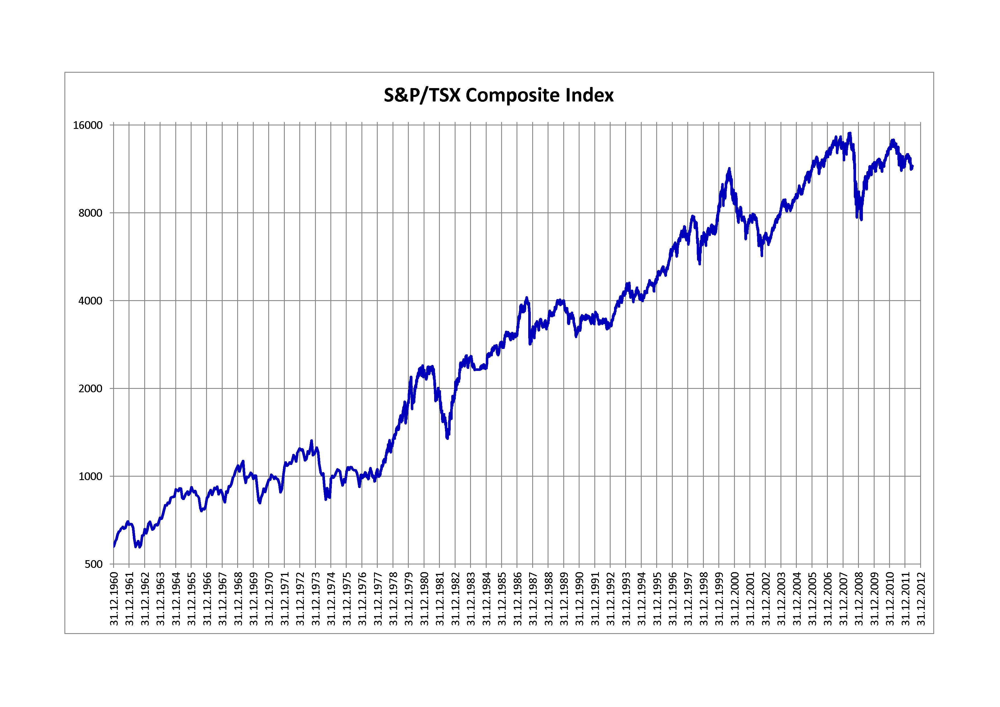 S&P/TSX Composite Index from December 1960 to June 2012 (daily closings)